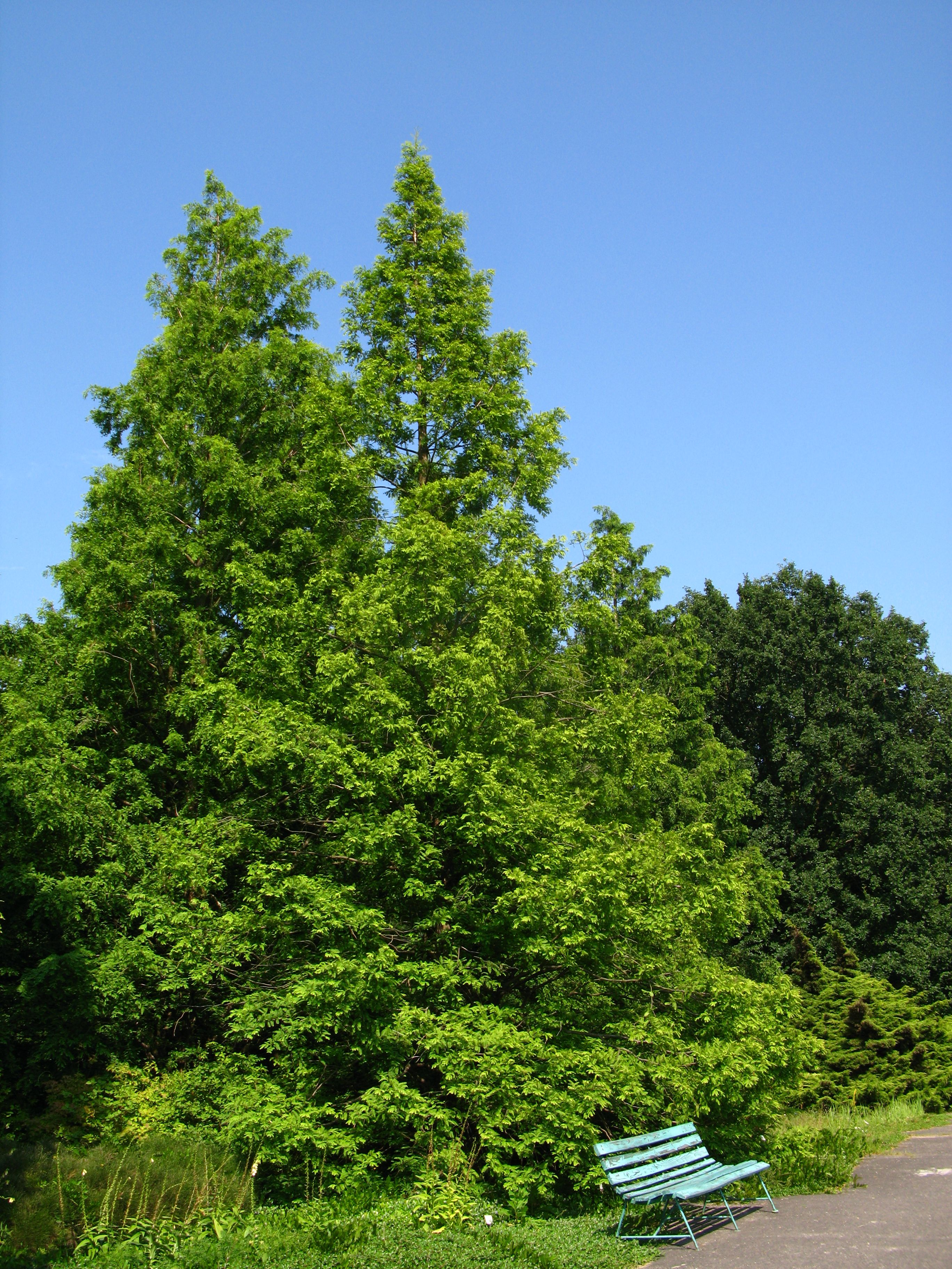 Metasequoia glyptostroboides in Arboretum in PAN Botanical Garden in Warsaw